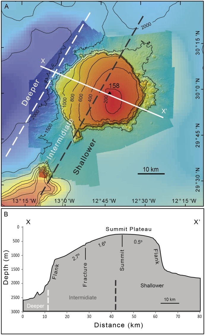 Morphometry of Concepcion Bank: Evidence of Geological and Biological Processes on a Large Volcanic Seamount of the Canary Islands Seamount Province. 2016 Rivera et al. Fig. 2. Bathymetry of Concepcion Bank and surrounding deep seafloor.(A) Bathymetric map from multibeam data (bright colours) and GEBCO (dull colours). The dashed lines delimit the three SWNW oriented parallel depth sectors described in section 4.4.(B) Bathymetric cross section along a SE-NW direction. Significant changes in slope are indicated. See location in A. Vertical exaggeration is 14:1. Summit location is indicated by a black triangle with a label showing its depth in meters.